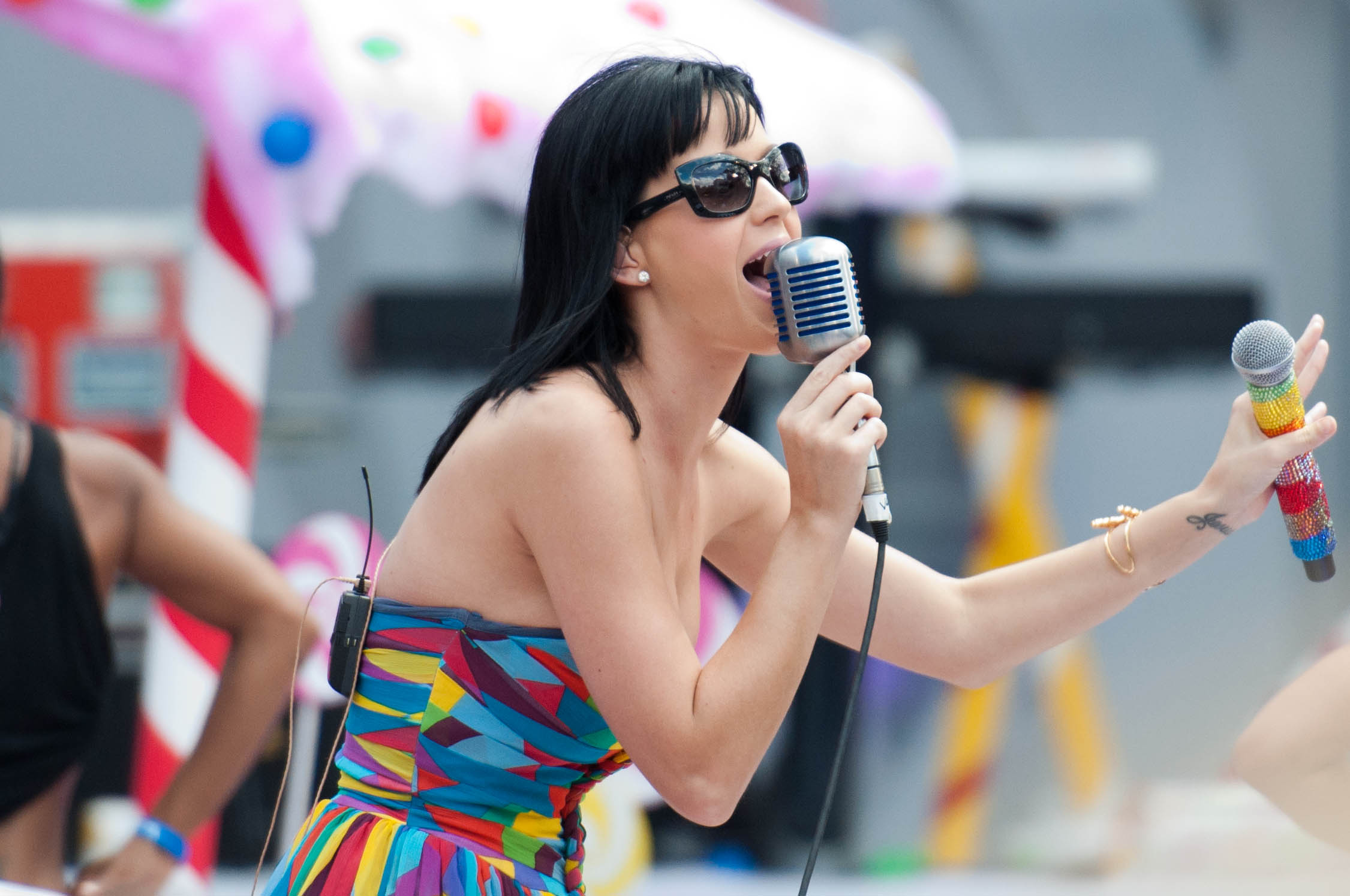 Katy Perry - MMVA Soundcheck